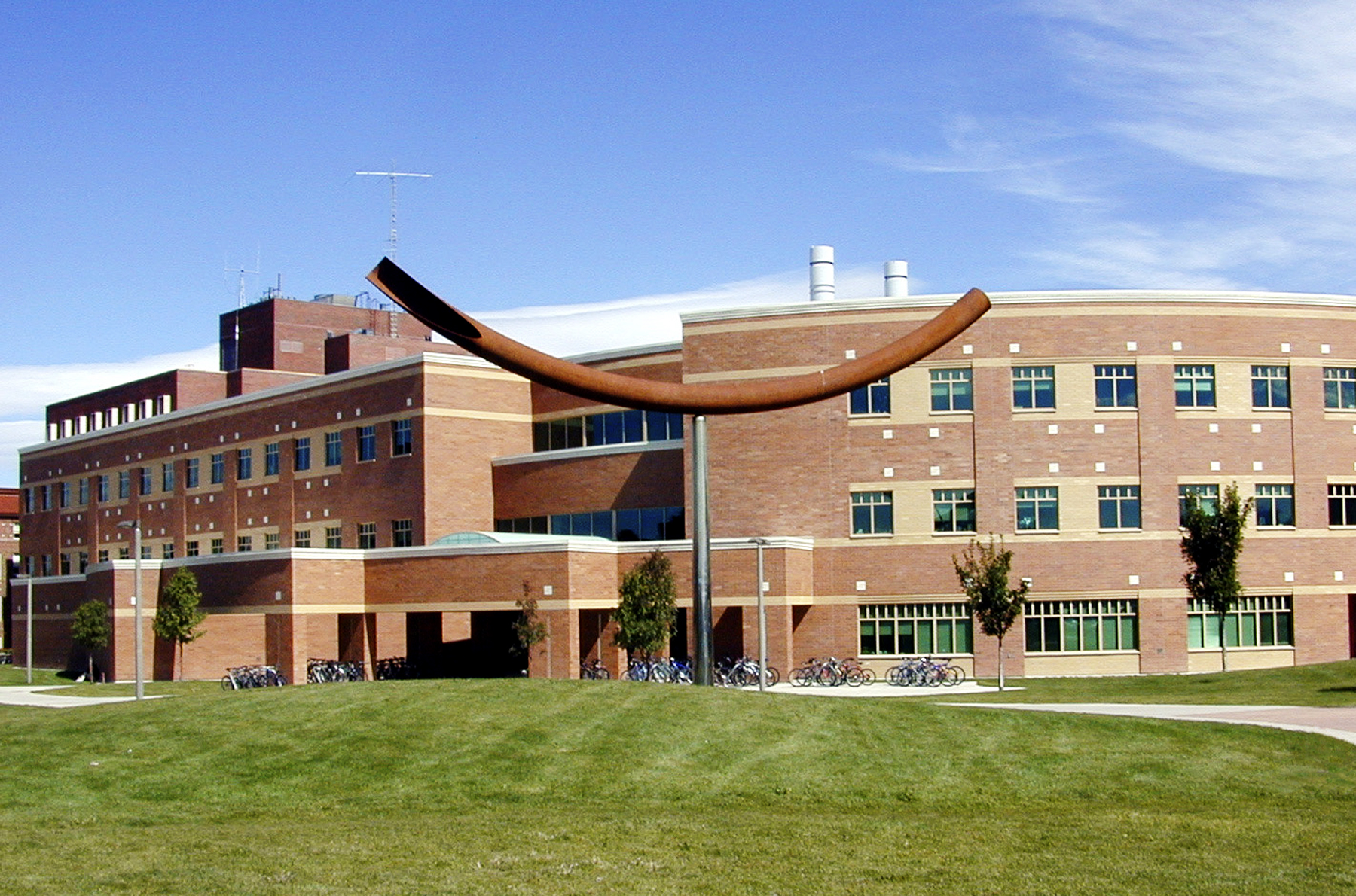 Engineering and Physical Science Building at Montana State University. Home of the Center for Biofilm Research